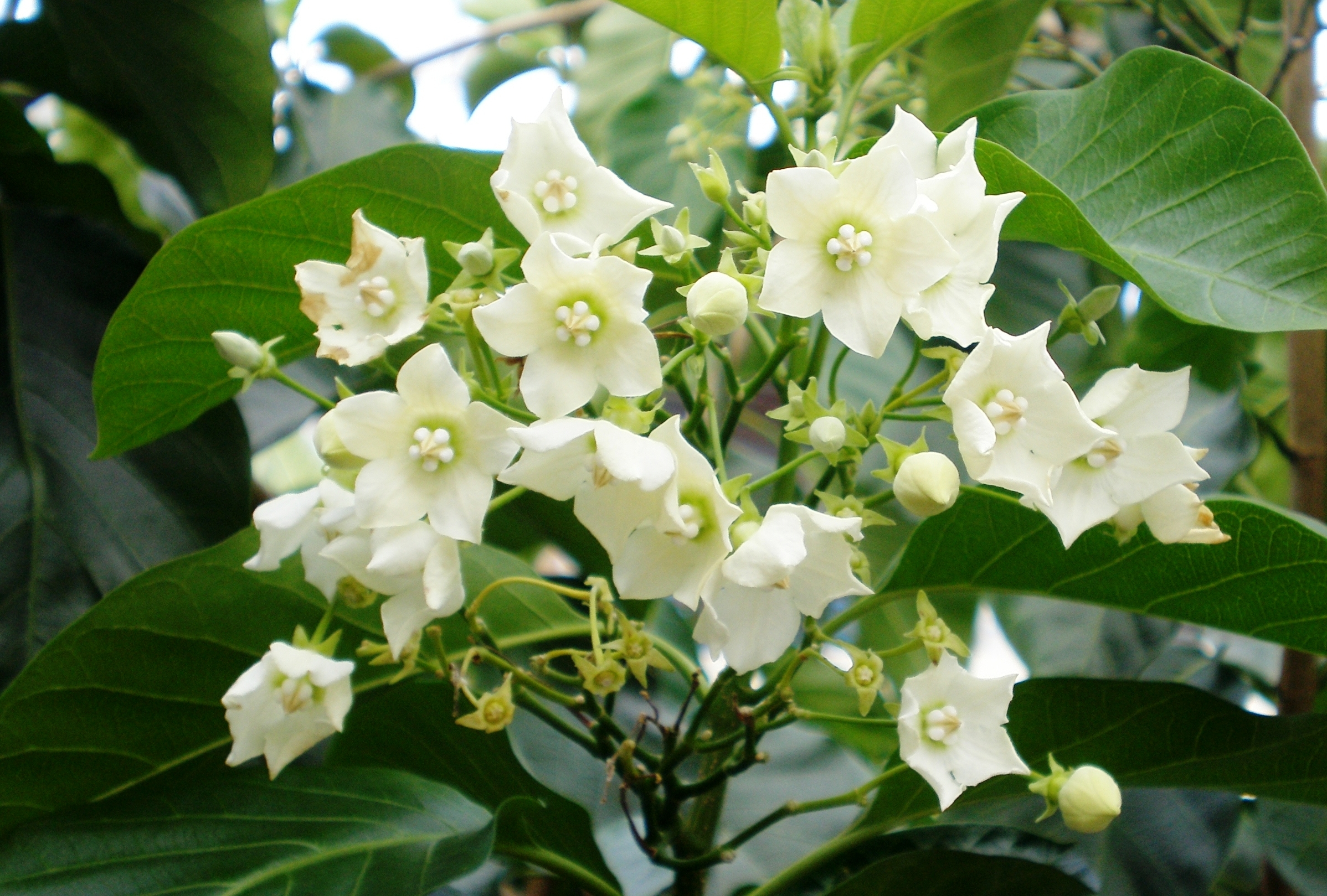 Flowers of Vallaris glabra (Apocynaceae)